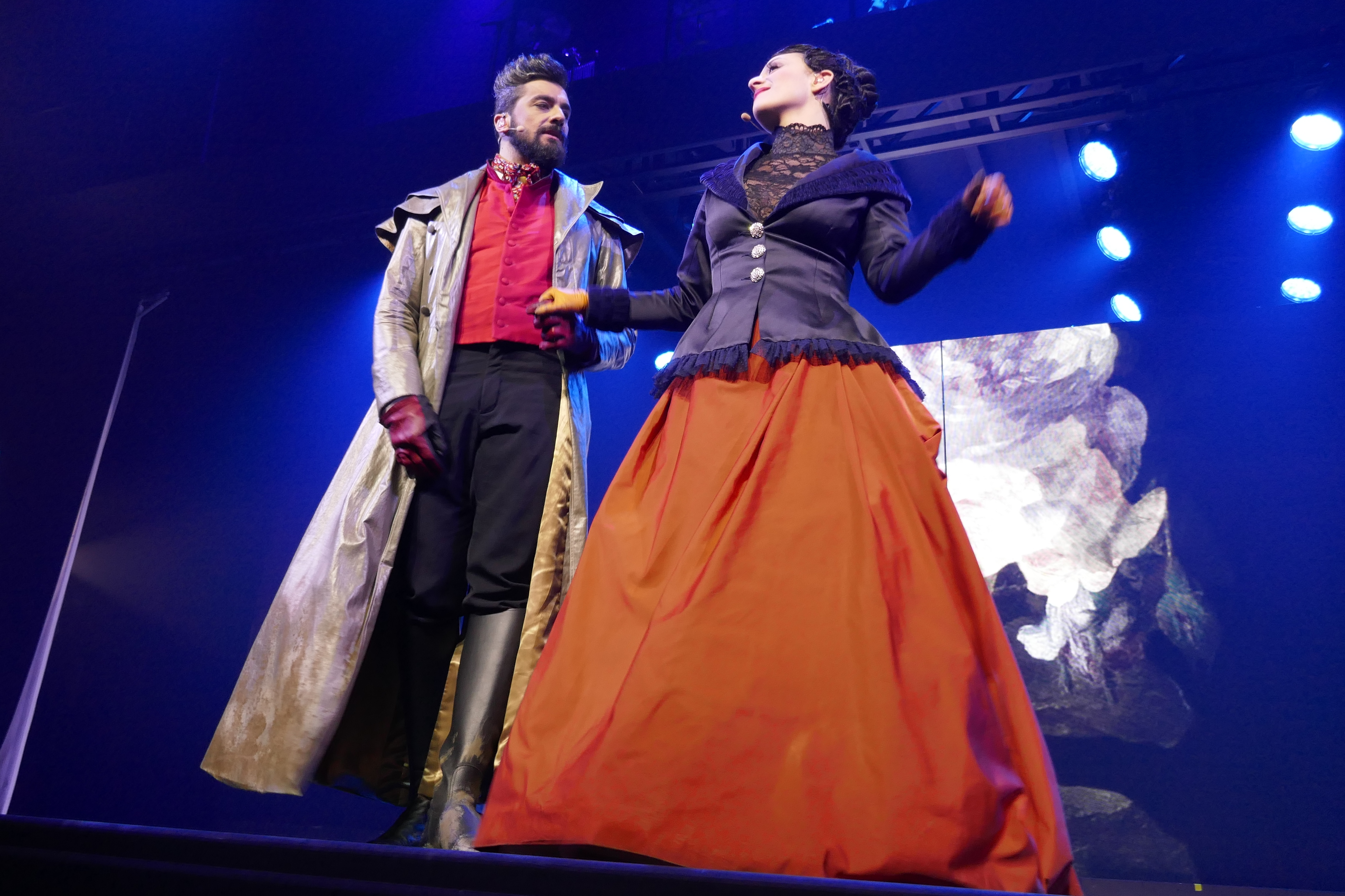 Le Rouge et le Noir Musical - Patrice Maktav & Elsa Pérusin (Valenod & Mrs. Valenod)